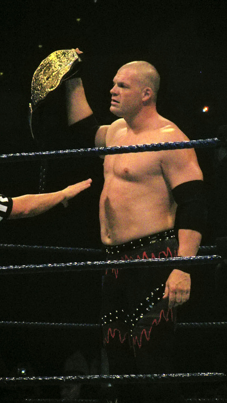 Kane @ Adelaide, South Australia 'Smackdown' house show on the 3rd of August '10